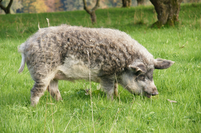 Mangalica, Pic